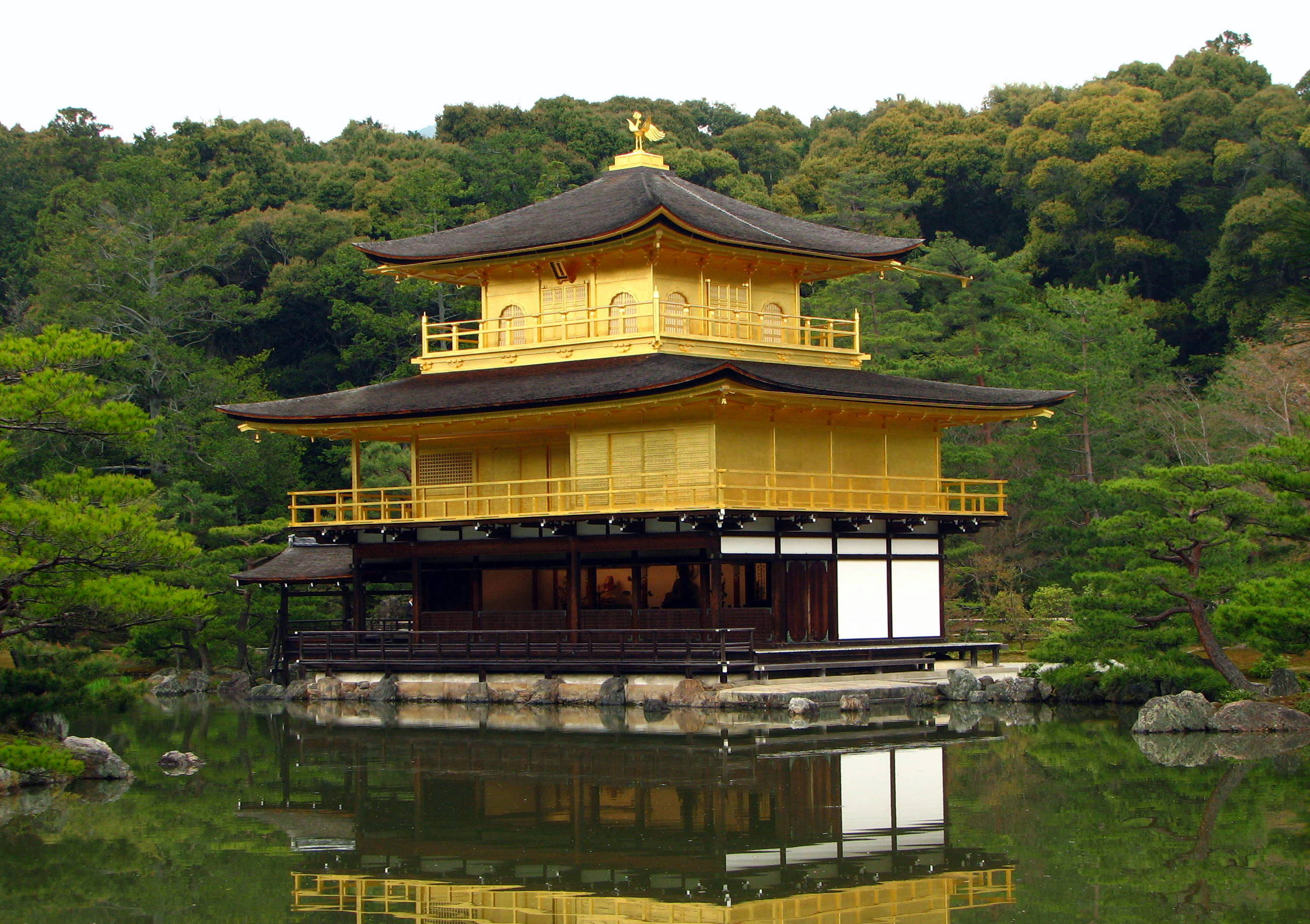 Kinkaku-ji (Golden Pavilion Temple), Kyoto, Kyoto Prefecture, Japan